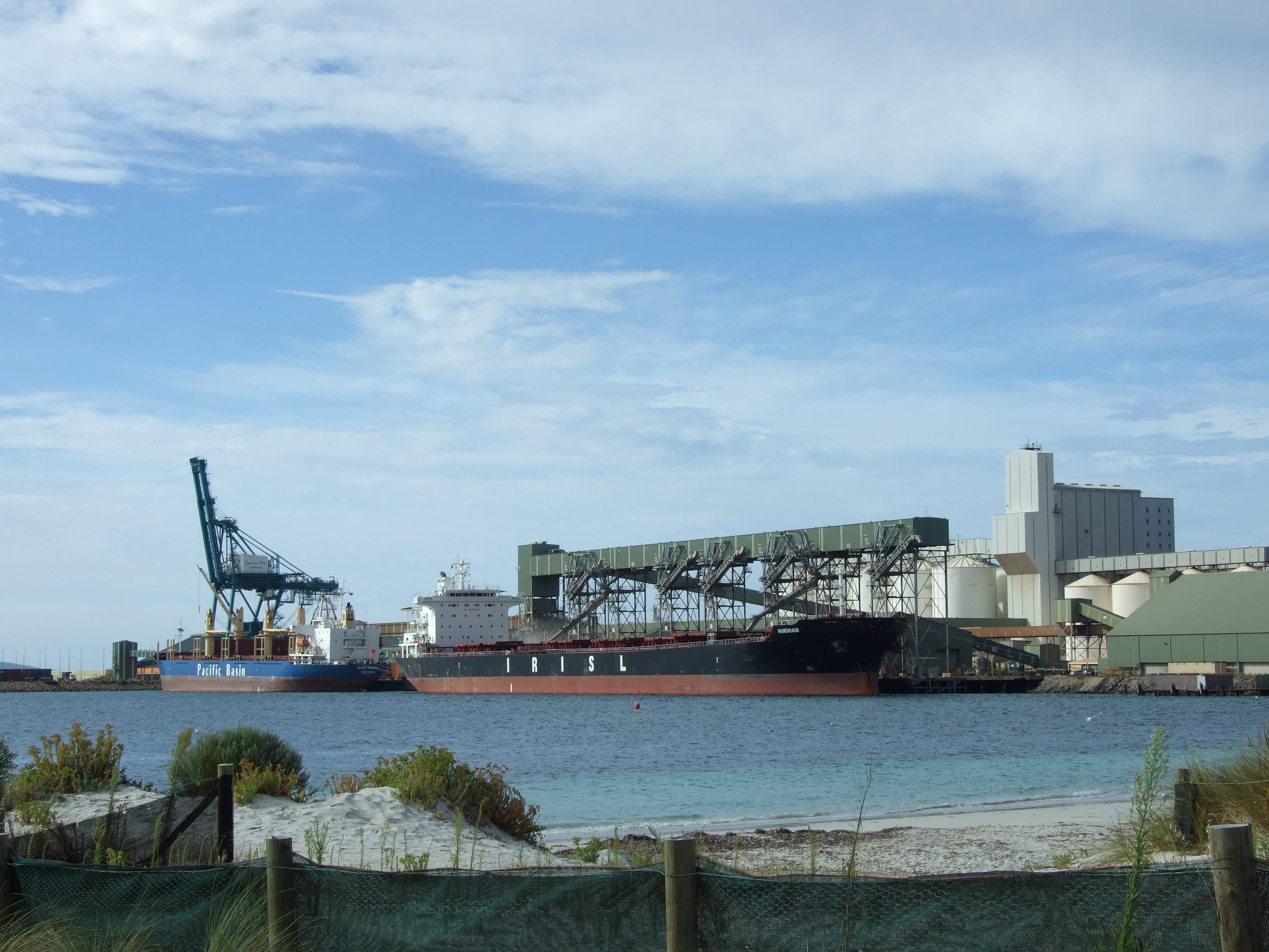 Esperance is in the middle of a large grain producing area.